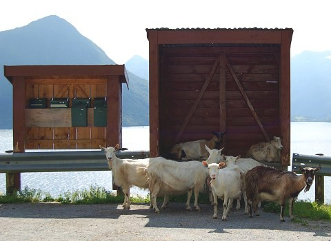 Goats in a bus shelter near Volda (Norway.